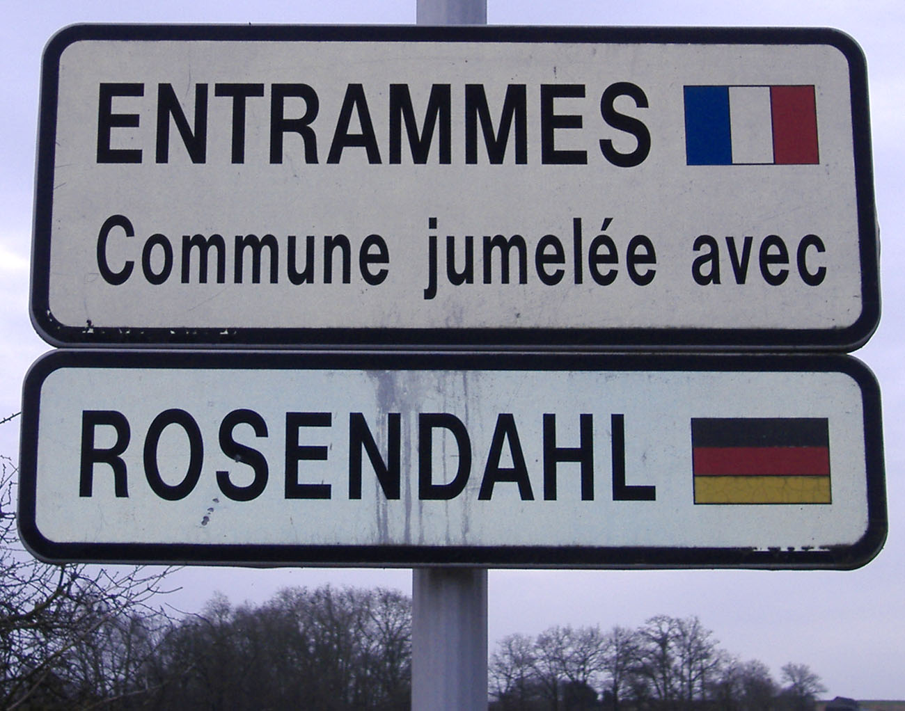 Entrammes - France